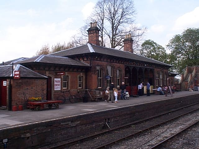 Shackerstone Station c.1873. HQ of the Battlefield Line Railway on the former Ashby and Nuneaton Joint Railway.